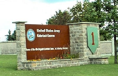 Photo of main gate at Katterbach Kaserne, Germany